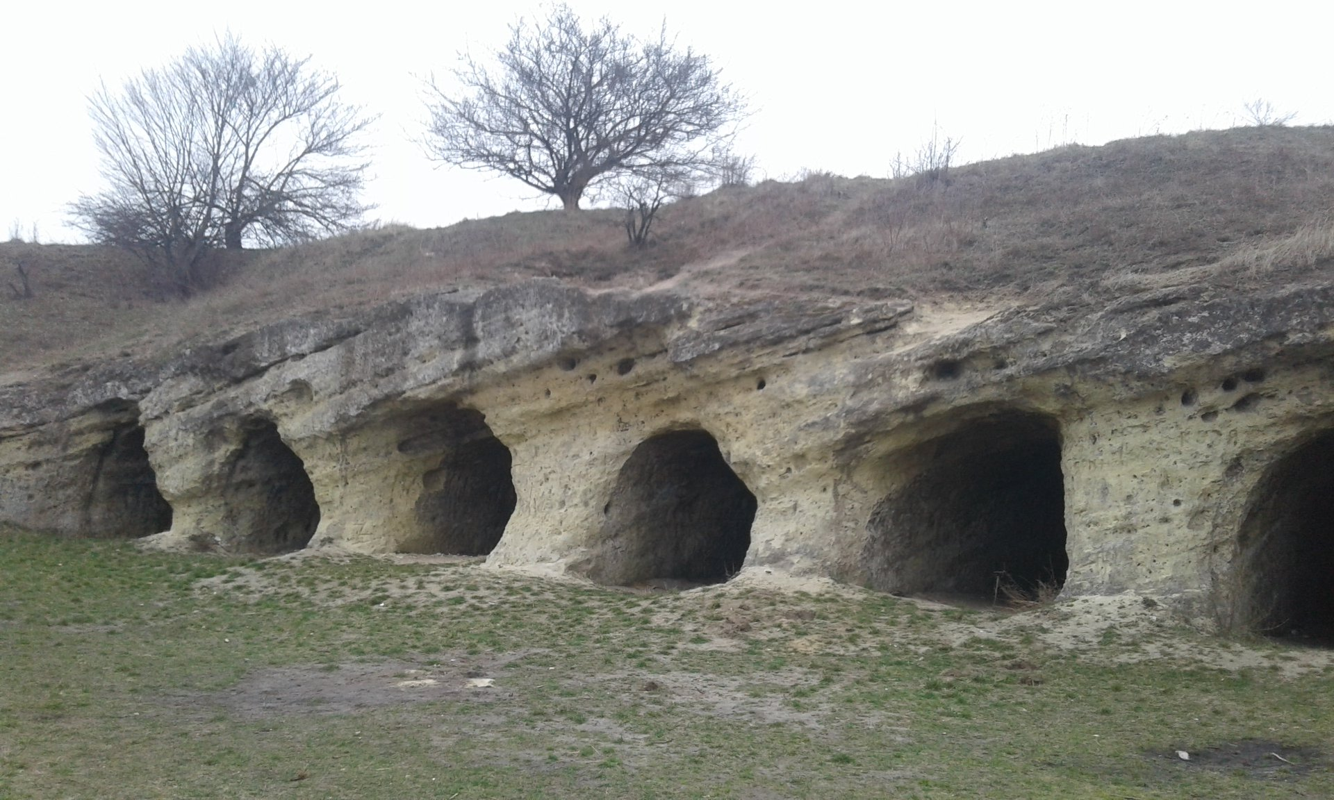 Myk castle 2